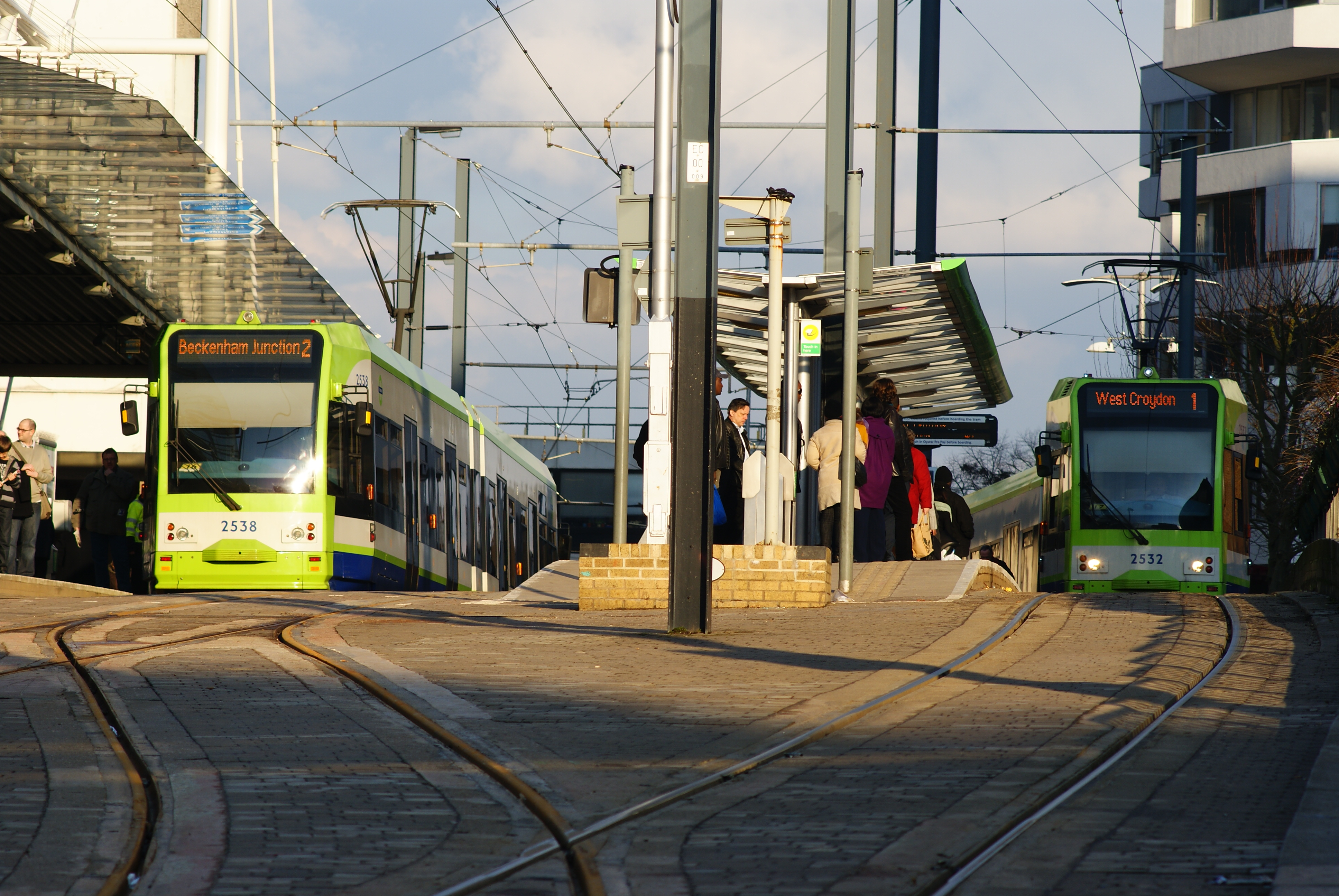 Trams at East Croydon Two trams have just arrived at the interchange with East Croydon railway station. The location is the eastern end of George Street, where the road rises to cross the bridge over the railway line. The tram with route code 2 will depart to the east; destination Beckenham Junction. The tram with route code 1 will depart, via the Croydon loop, to West Croydon. By West Croydon, the destination will have changed to Elmers End; it will arrive, back at East Croydon, on the left platform which is currently occupied by the other tram.